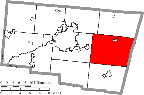 Map of the municipal and township boundaries of Clark County, Ohio, United States, as of the 2000 census, with the location of Harmony Township highlighted. Township borders are shown only in unincorporated areas in order to differentiate incorporated and unincorporated areas more clearly.